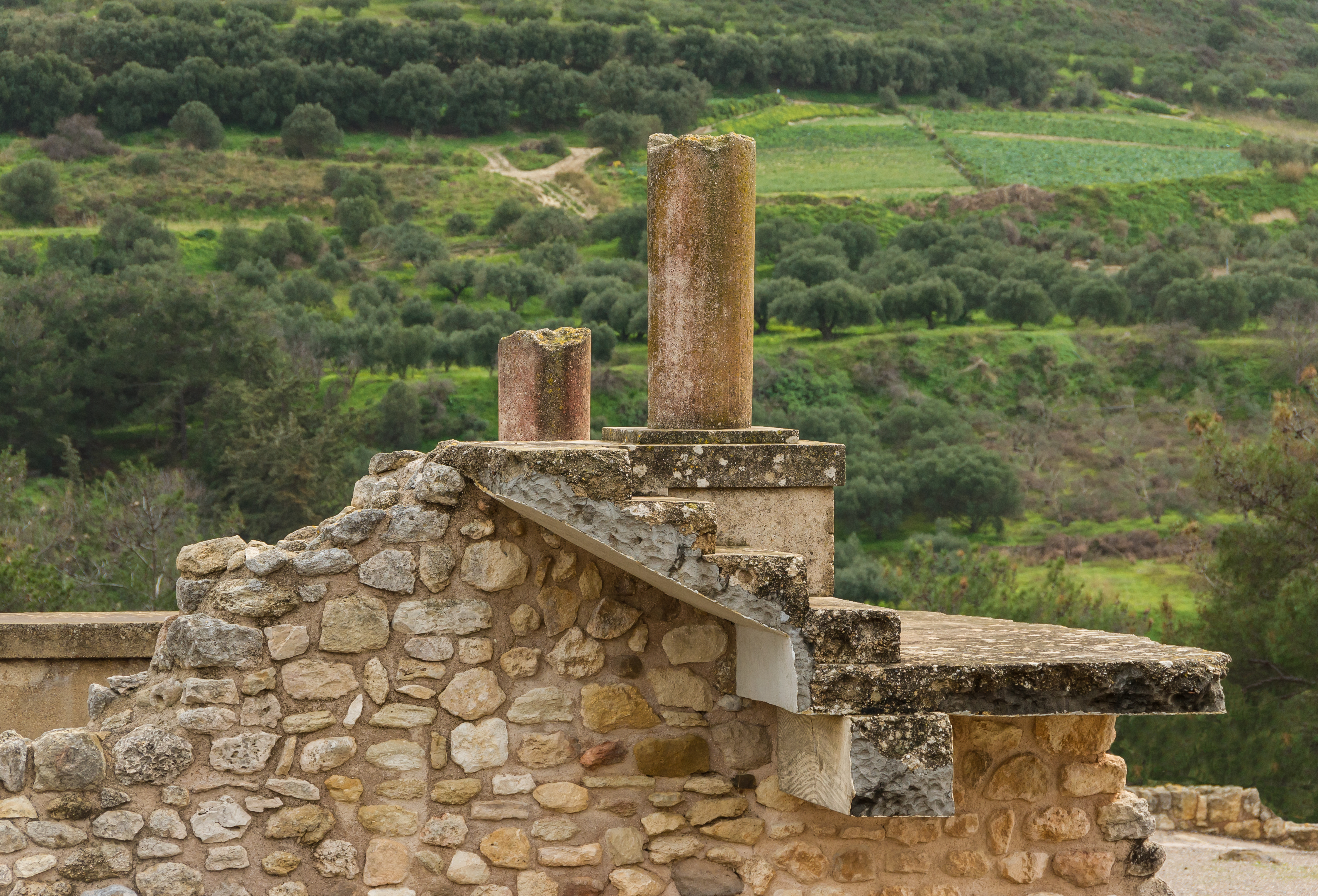 Anastylosis in Knossos minoan palace, Crete, Greece, by Arthur Evans. Nothing is authentic, all is reconstruction. Now, Evan's work is "cultural heritage" by itself and must be restored...